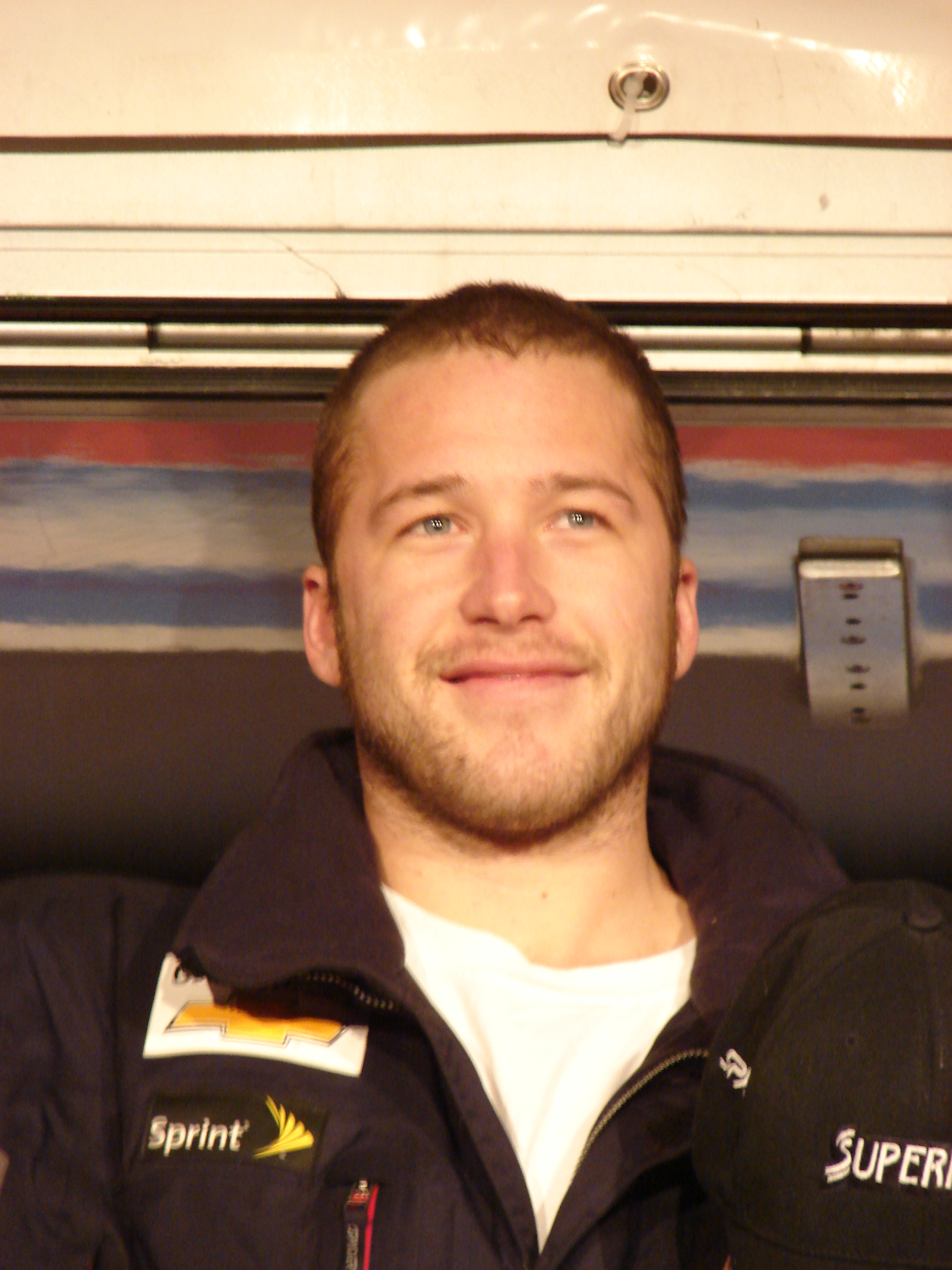 Bode Miller during the price giving ceremony for the Super G in Hinterstoder, Austria on Dec. 20, 2006.